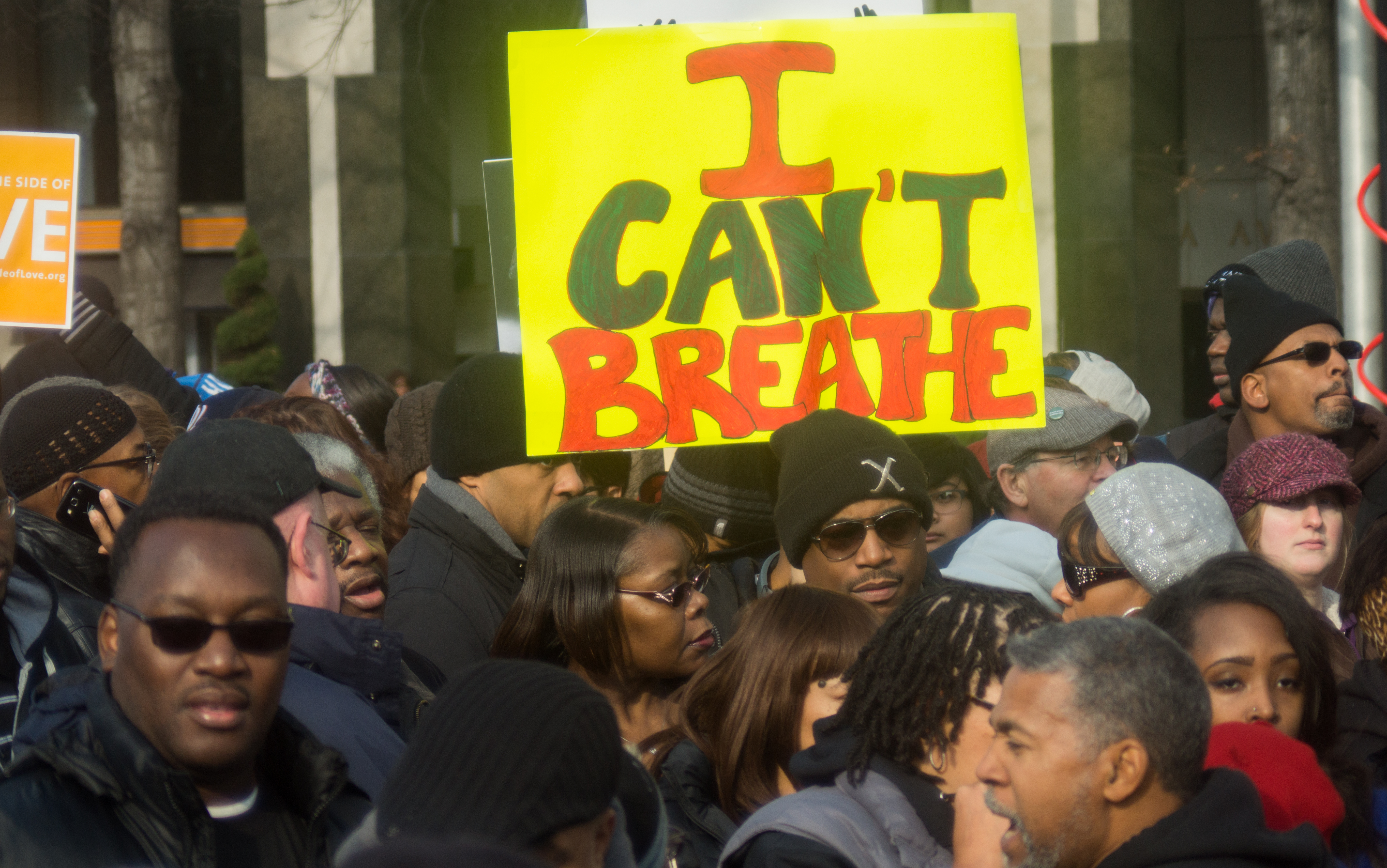 Justice for All March - Dec. 13, 2014